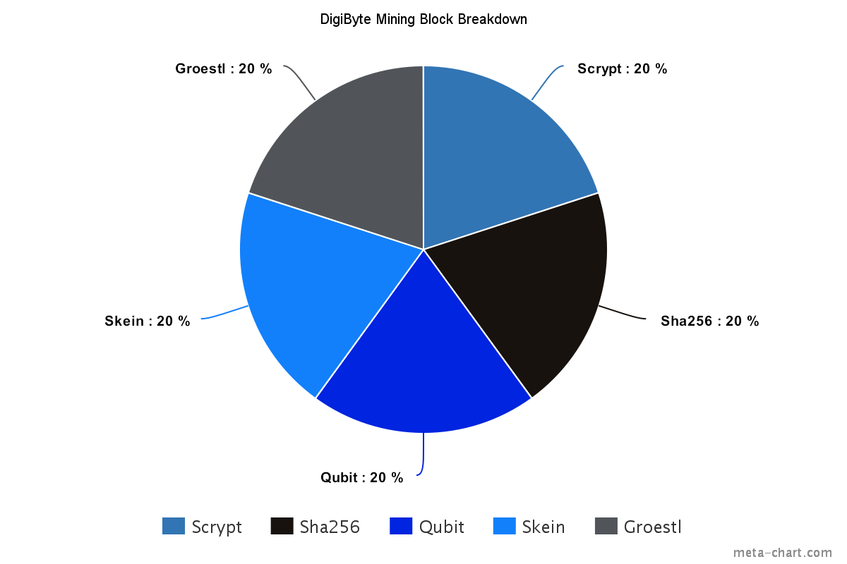 The Five DigiByte Mining Algorithms